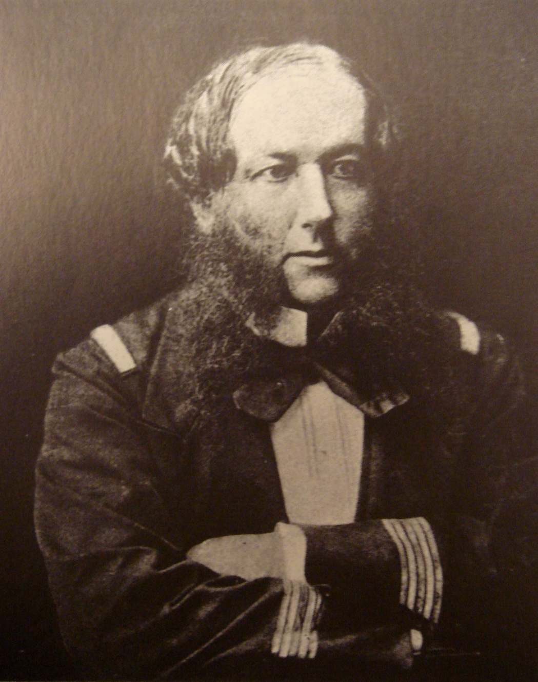 French writer and naval officer Henri Rivière (1827-1881)